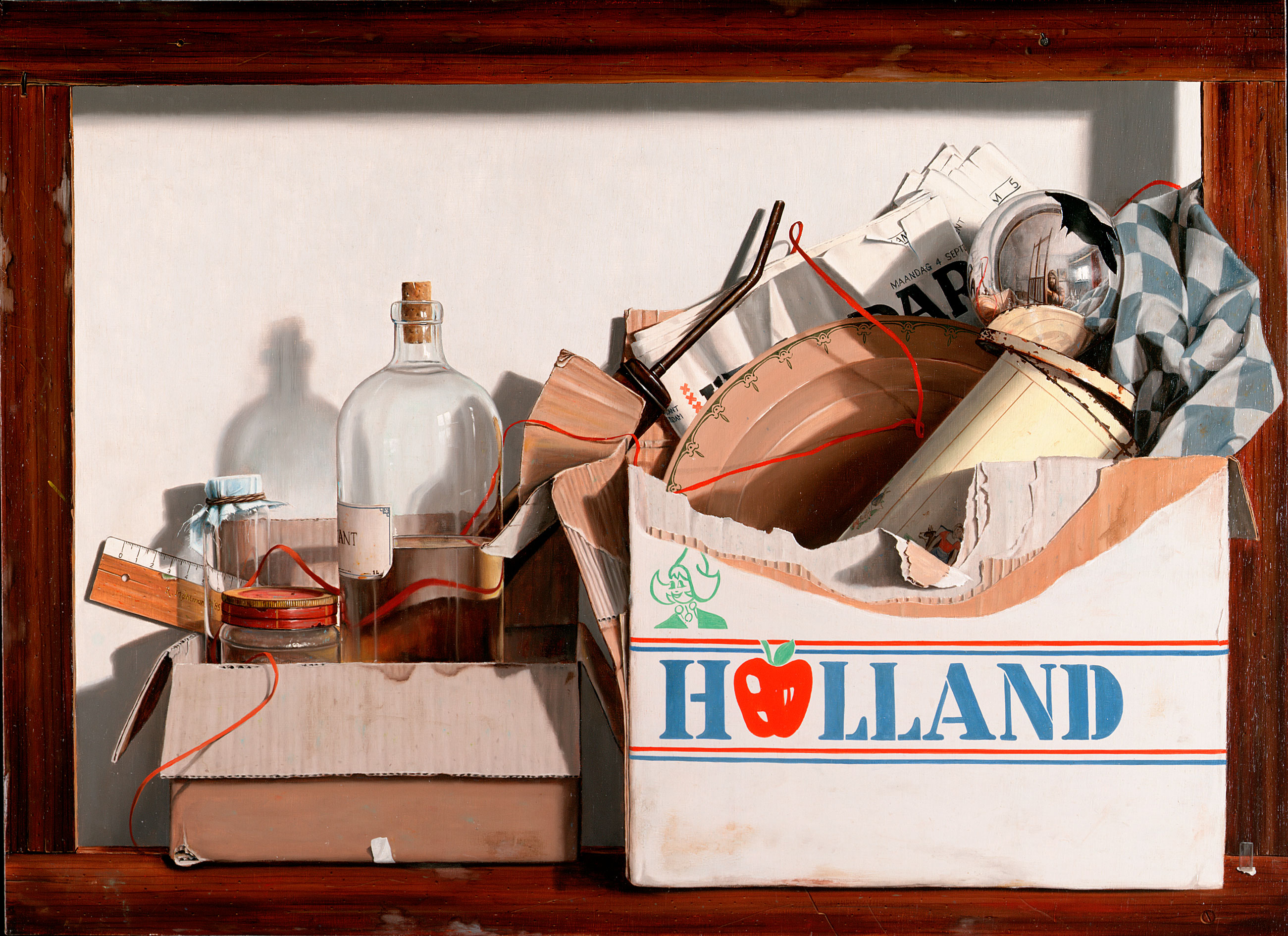 painting